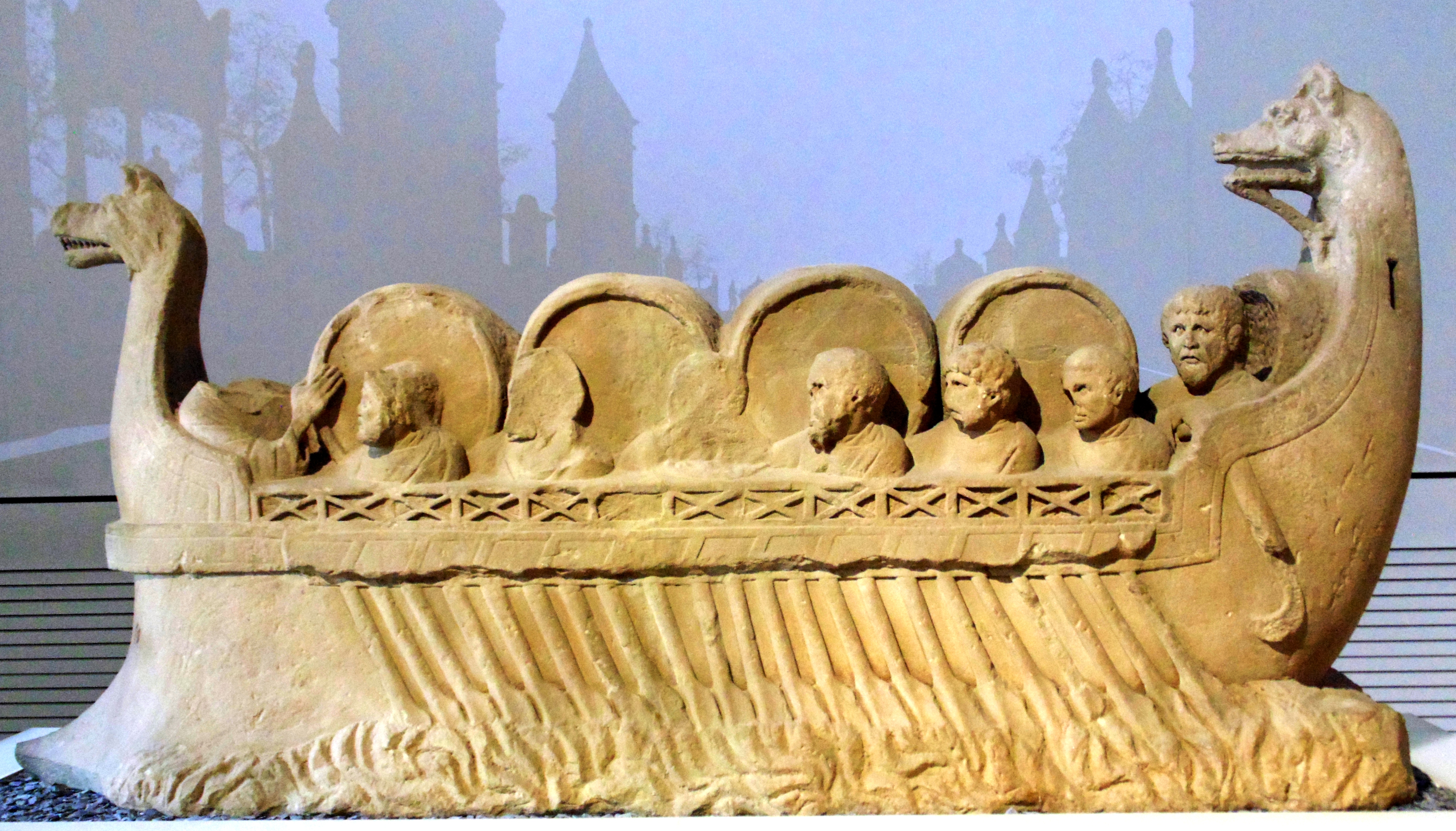 Wineship. Relief on a funerary stele